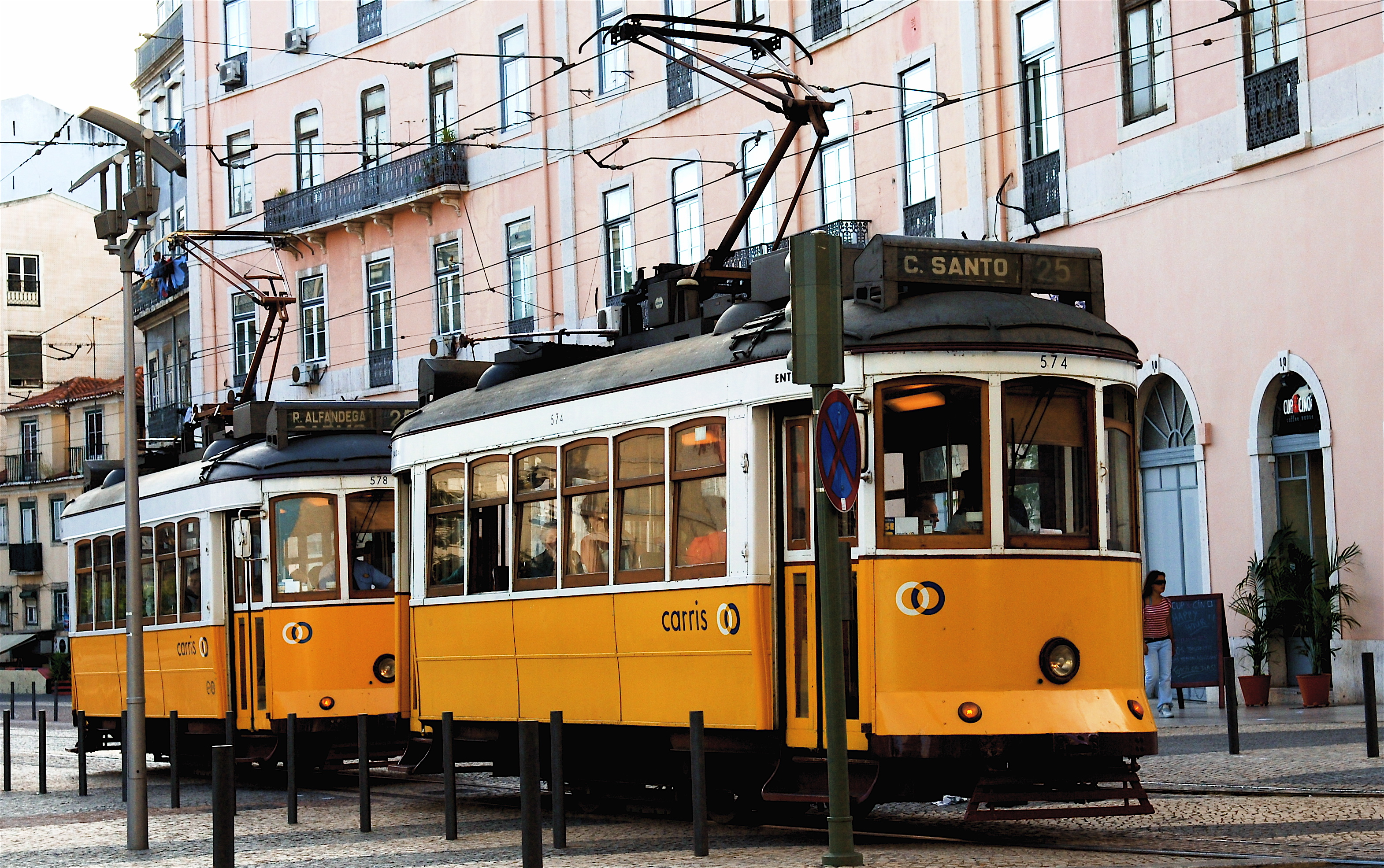 Tram in Lisbon, Portugal.